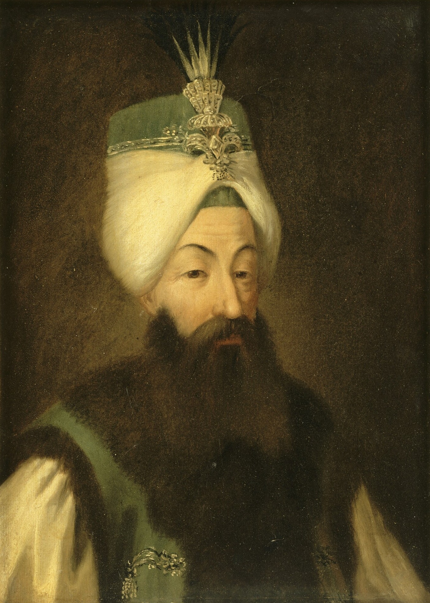 27th Sultan of the Ottoman Empire and 106. caliph of Islam ; Abdülhamid I. (1725-1789)